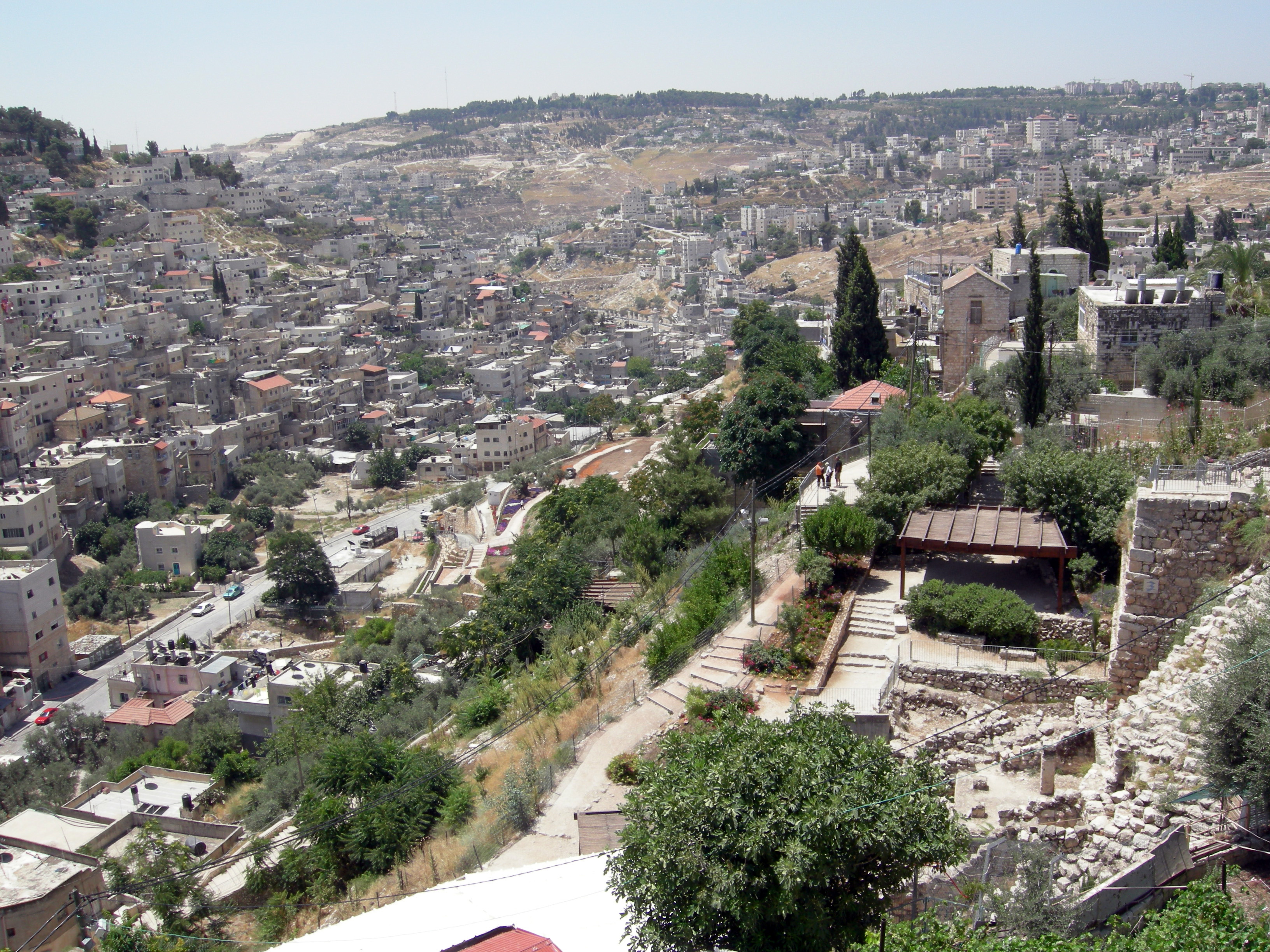 View of the Kidron Valley from the Old City of Jerusalem.